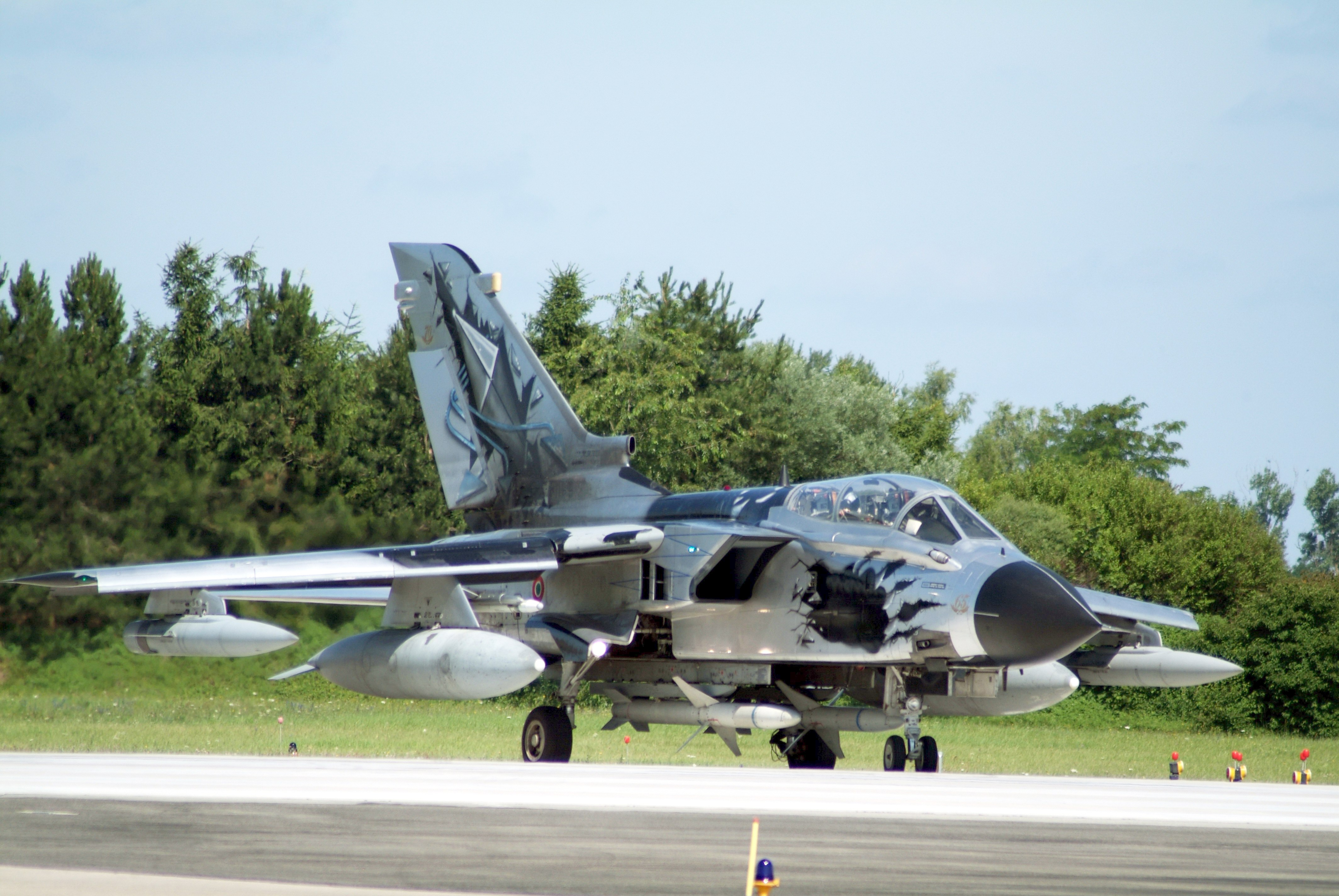 Specially marked Italian Tornado MM7027 50 Stormo 155 Gr. during NATO exercise Elite 2008 near Munich in Bavaria